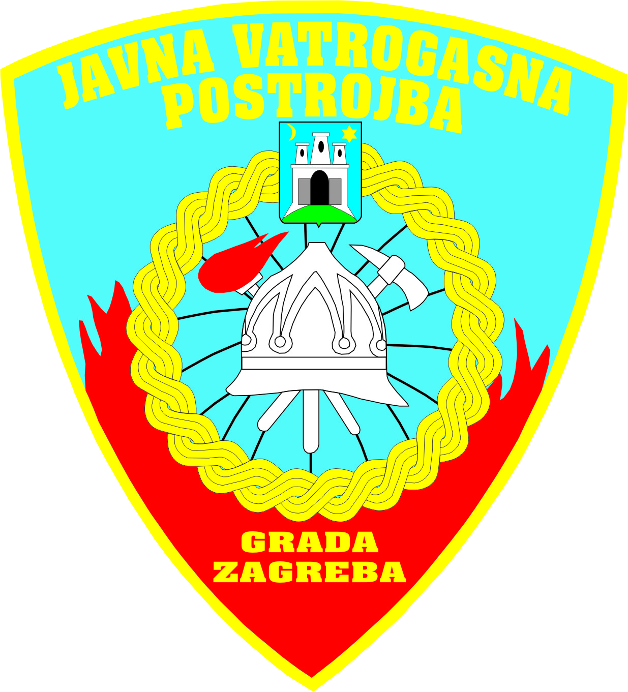 Logo of Fire department of Zagreb city